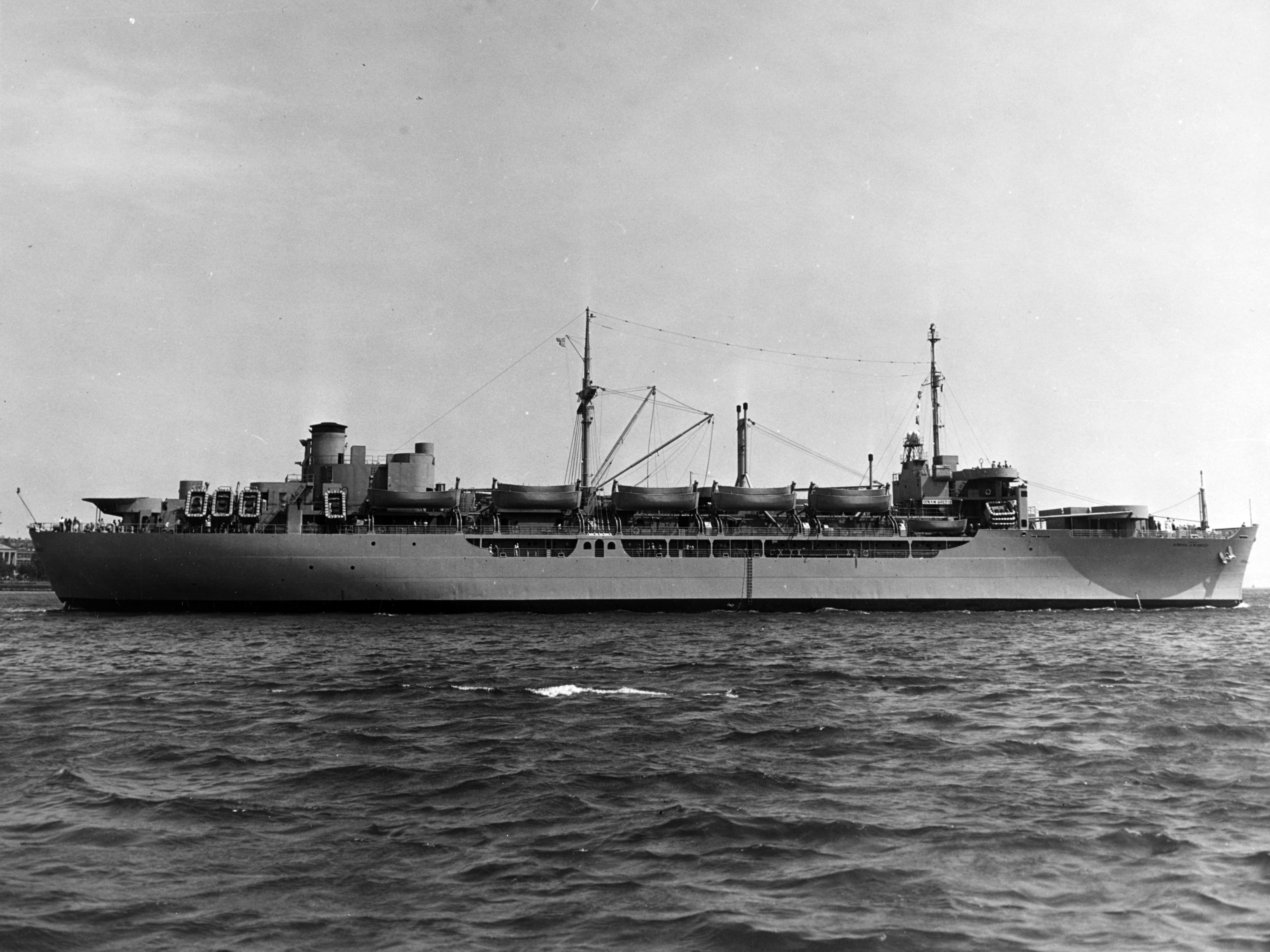 The U.S. Military Sea Transportation Service transport USNS General A. W. Greely (T-AP-141) underway, circa in the early 1950s.